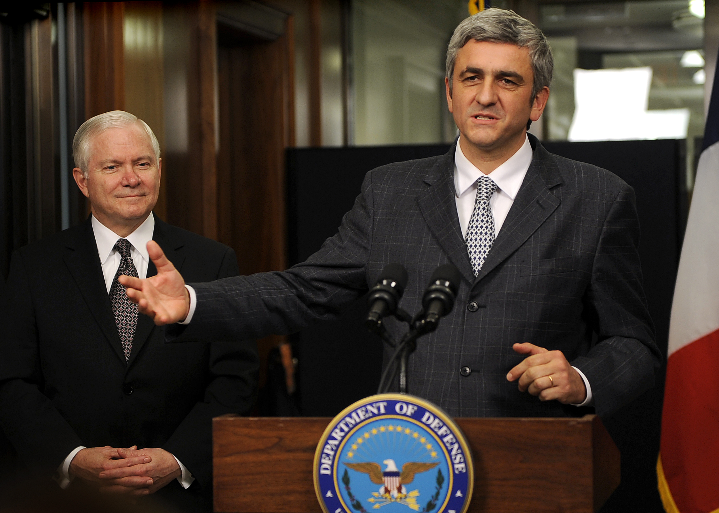 Defense Secretary Robert M. Gates, left, conducts a press conference with French Minister of Defense Hervé Morin during Morin's first visit to the Pentagon as the defense minister, Jan. 31, 2008.